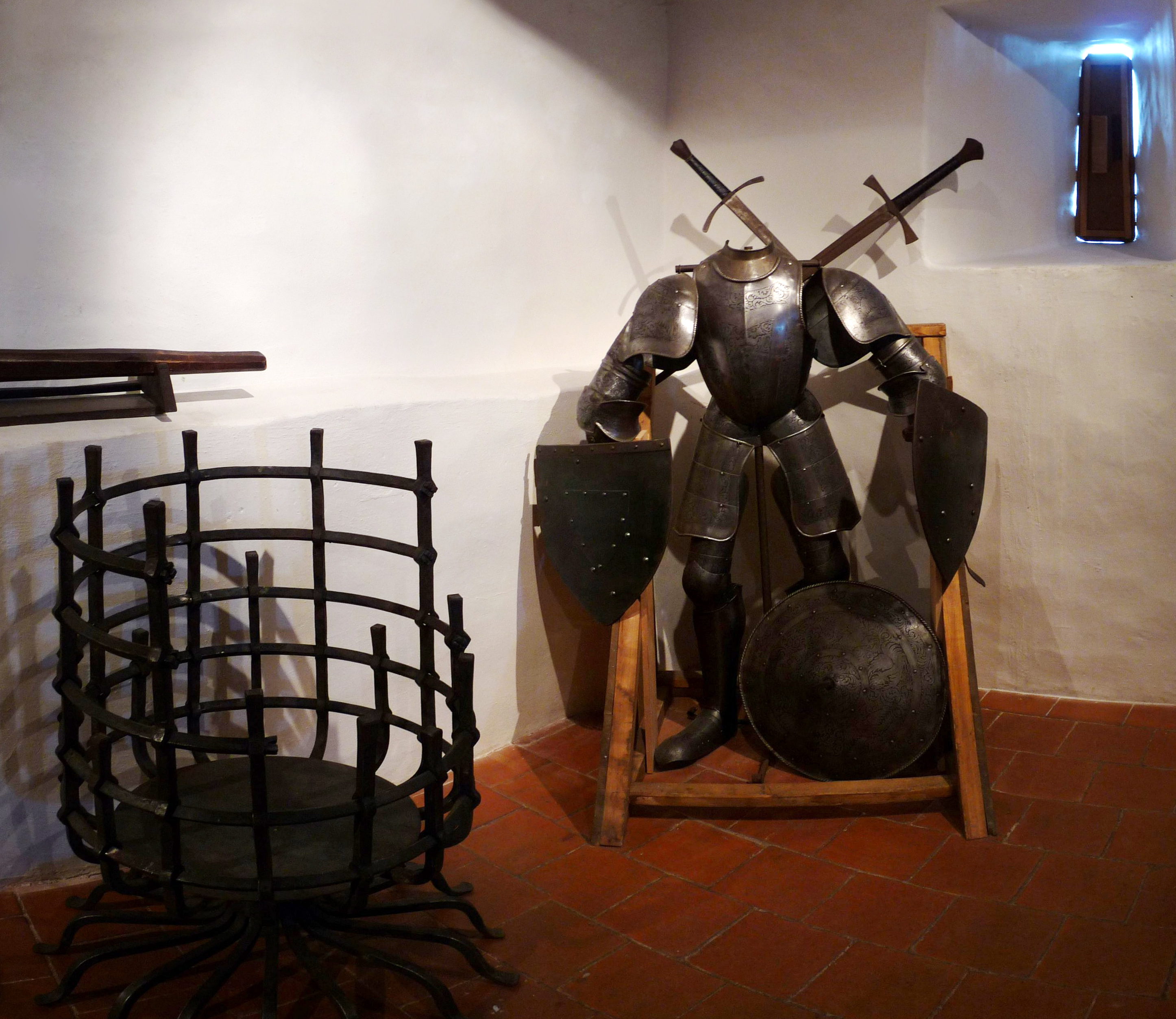 Interior of the Kašperk Castle near Kašperské Hory, Klatovy District, Plzeň Region, Czech Republic.